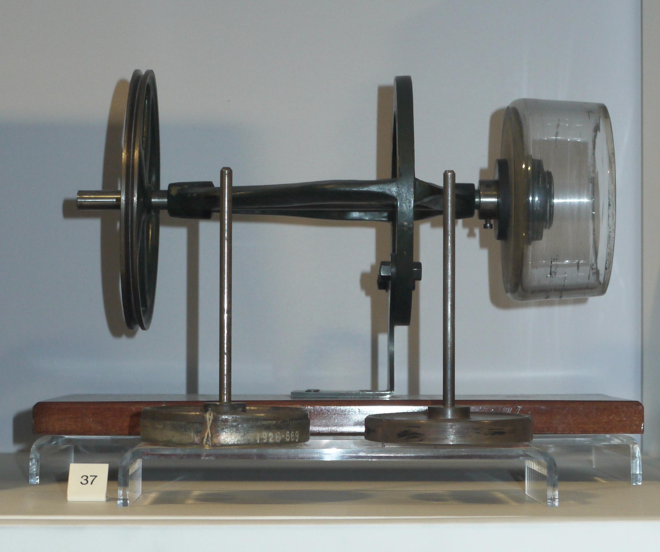 A Viscose Rayon spinning machine on display at the science museum in london